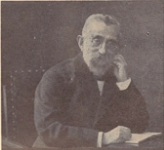 Photo portrait of Abraham Berliner, a faculty member of Hildesheimer Rabbinical Seminary